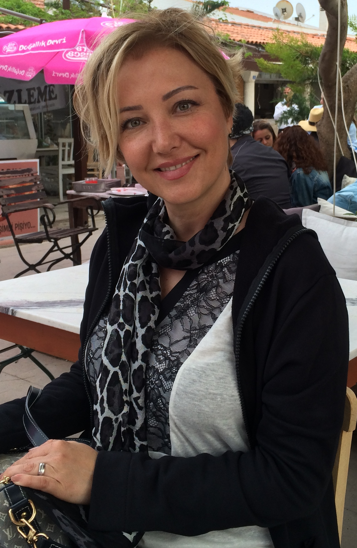 Berna Lacin April 2016